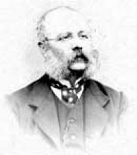 French writer, poet and playwright Armand Barthet (1820-1874)